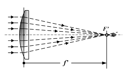 Focal length of a positive lens.